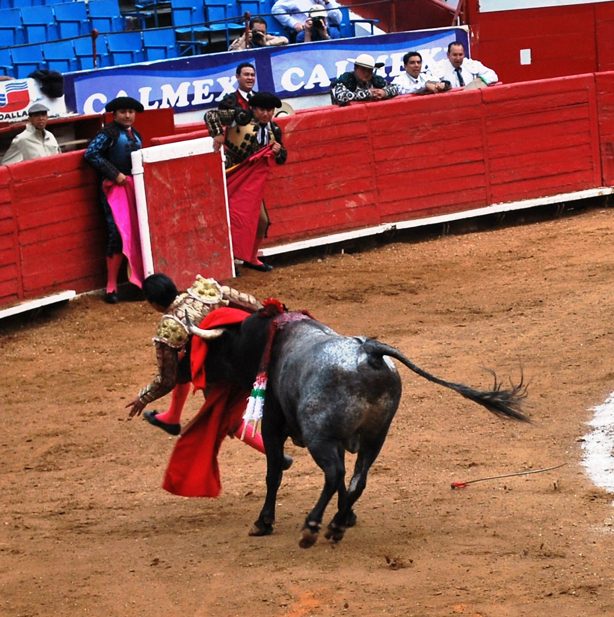 Principe and matador Jose Pedro Rodriguez Zavala at the 28 June event at the Plaza de Toros in Mexico City. This was a close call as the bull caught him off guard.